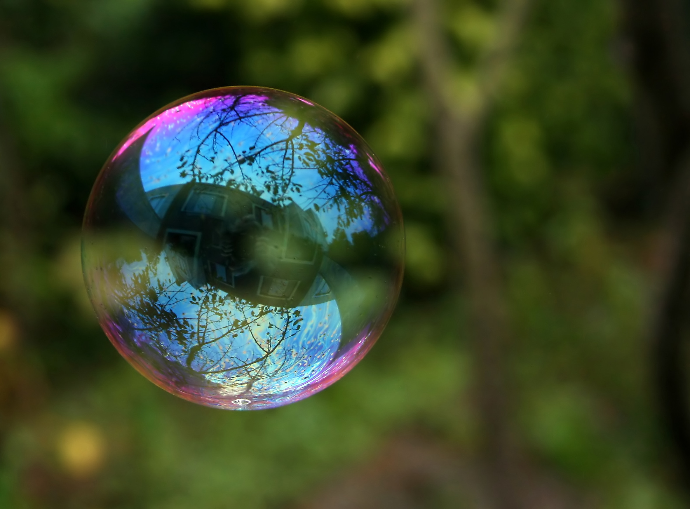 Reflection in a soap bubble.